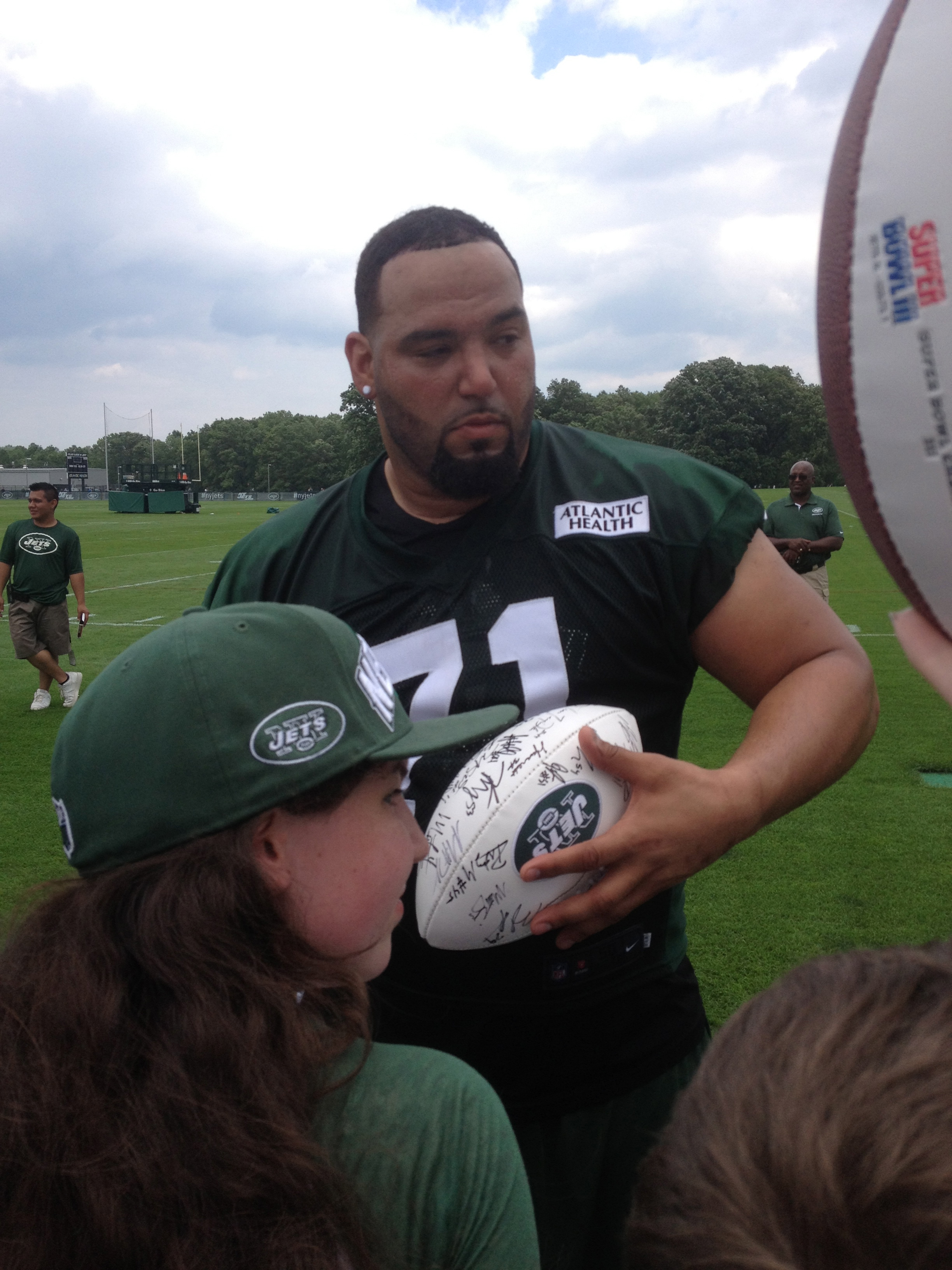 Antonio Garay signing autographs at New York Jets Mini Camp in Florham Park, NJ, on June 11, 2013.